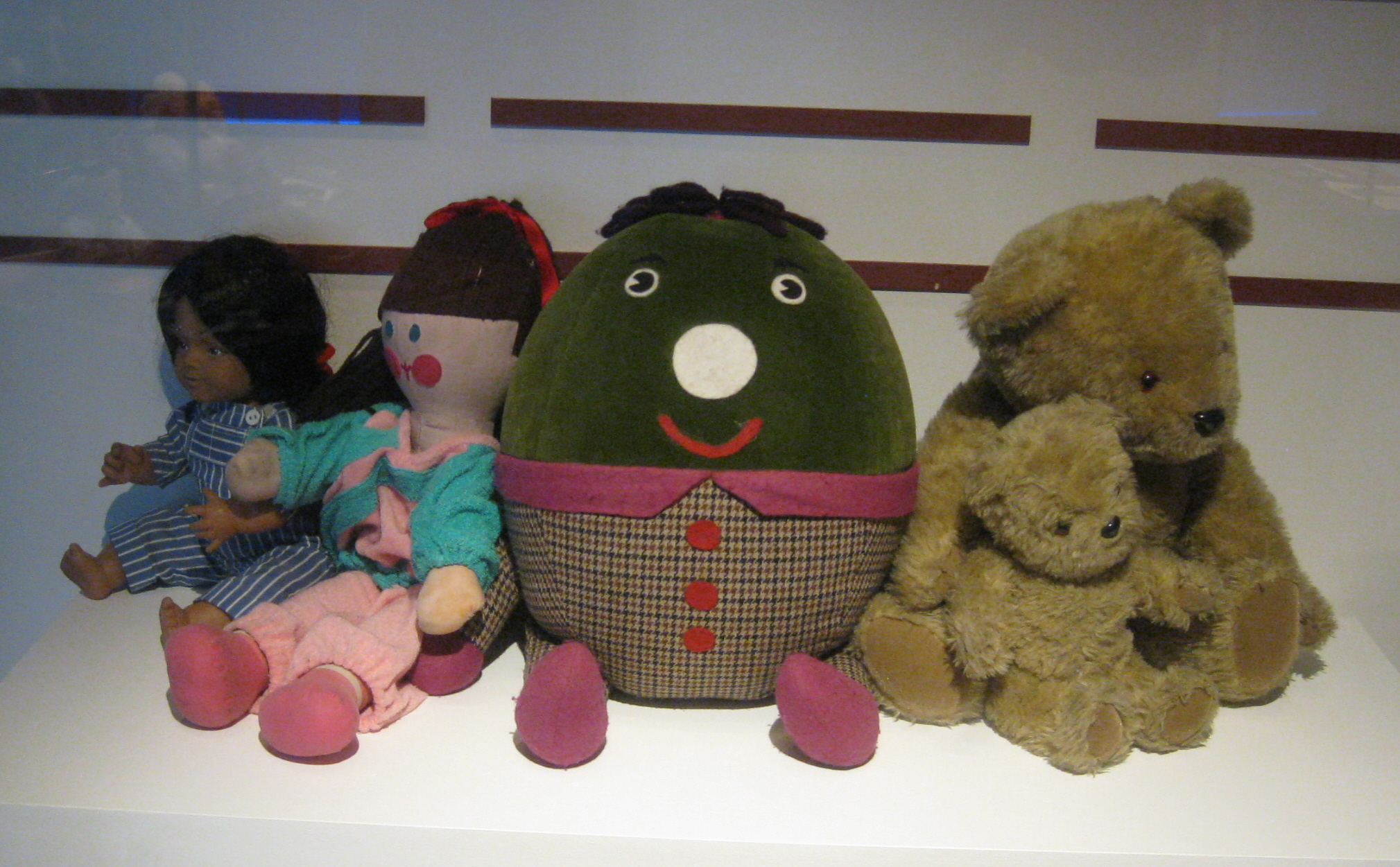 Puppets used in the BBC children's series Playschool. From left, Poppy, Jemima, Humpty, Little Ted, Big Ted. On display in the National Media Museum, Bradford, UK.